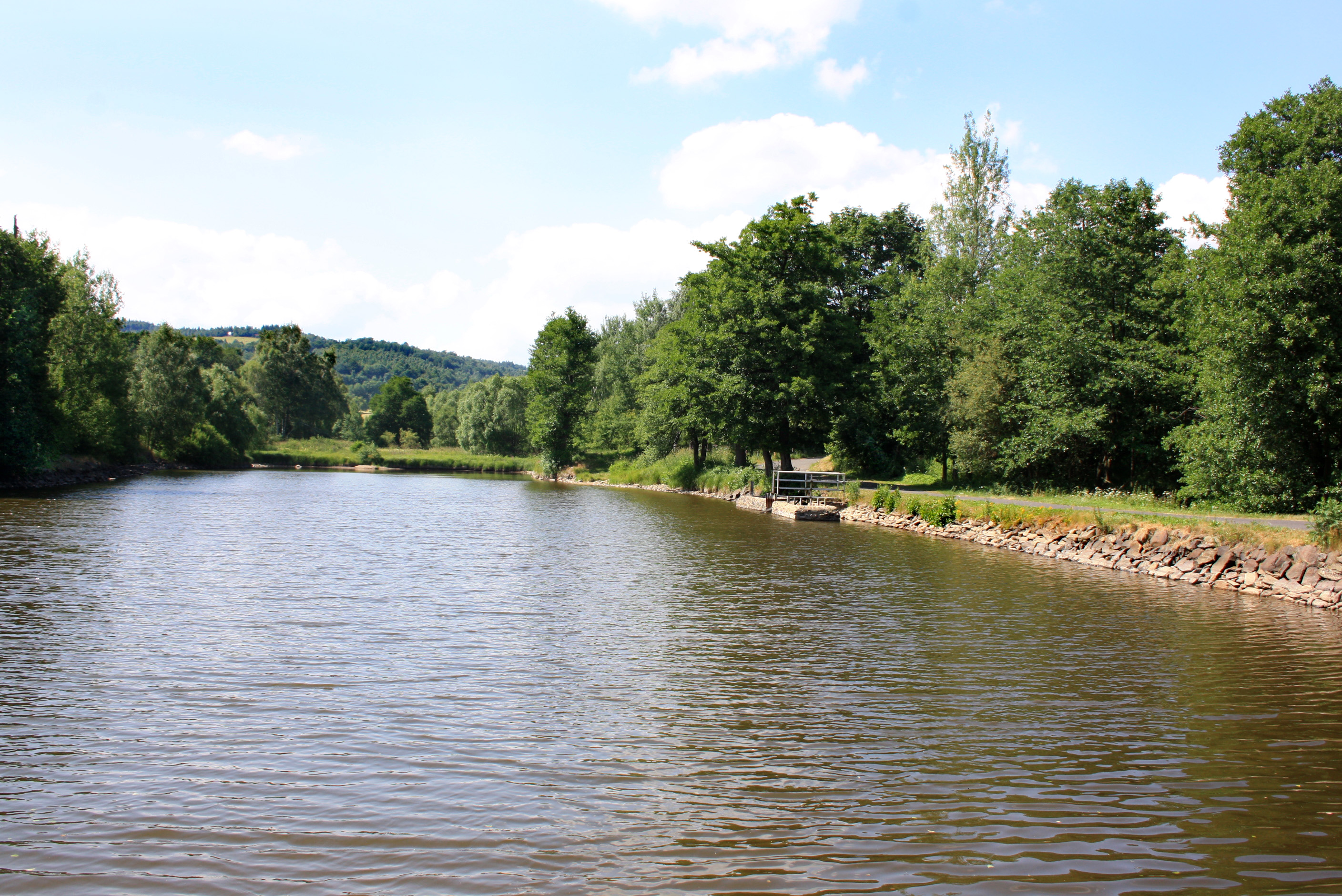 Pond by Květnov, part of Blatno, Czech Republic